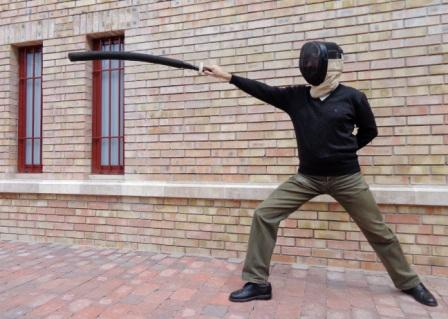 A non-Olympic fencer in Miskolc, Hungary.